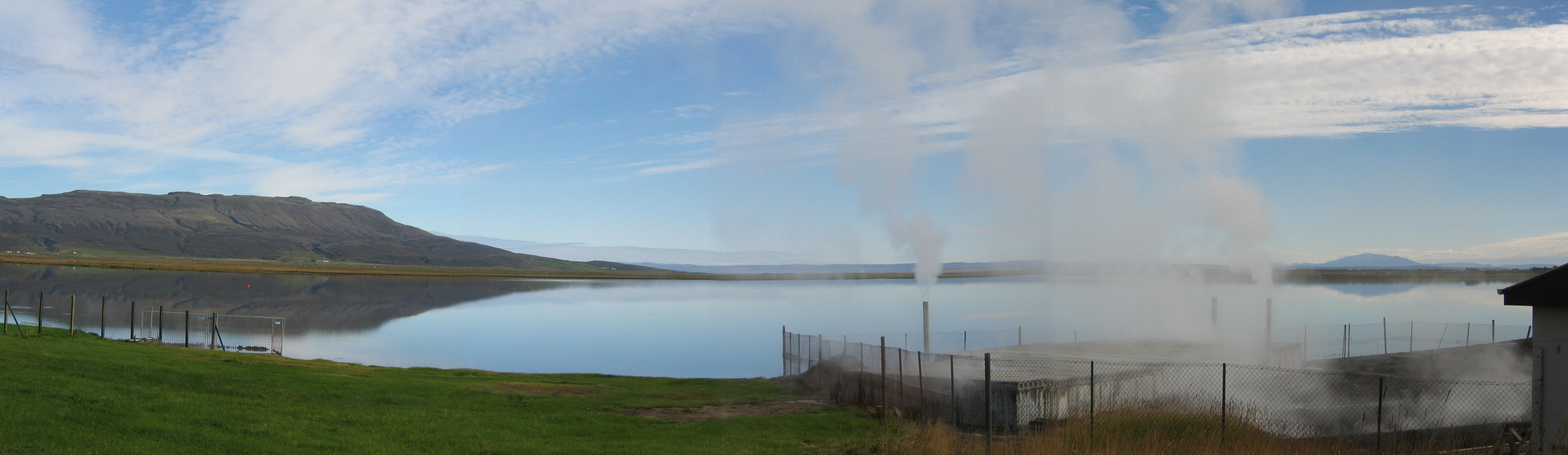 Laugarvatn, Iceland photo by Salvor Gissurardottir September 2006 photos stiched together